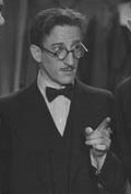 René Cossa- actor